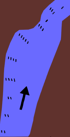 Iowa Vanes, schematic diagram